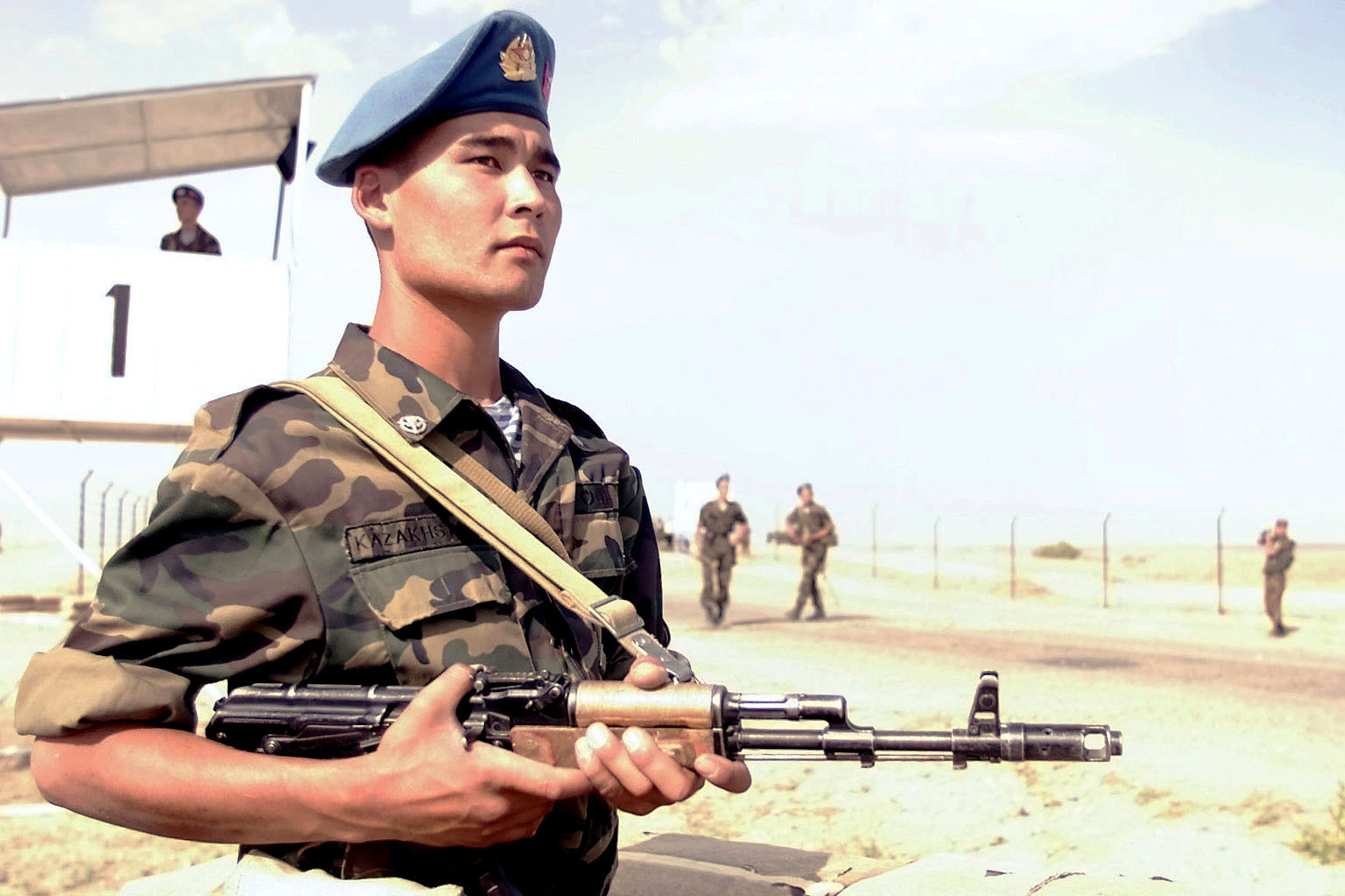 A Kazakhstan soldier, armed with 5.45 mm AK-74 assault rifle, mans a check point during the start of Central Asian Peacekeeping Battalion (CENTRASBAT) 2000. CENTRASBAT 2000 is a multi-national peacekeeping and humanitarian relief exercise sponsored by United States Central Command (US CENTCOM) and hosted by the former Soviet Republic Kazakhstan in Central Asia, 11-20 September 2000. Exercise participants include approximately 300 US troops including personnel from US CENTCOM, the US Army's 82nd Airborne Division, Fort Bragg, North Carolina, and 5th Special Forces Group, Ft. Campbell, Kentucky, and 300 Kazakhstan soldiers. Other participating nations include: Uzbekistan, Kyrgystan, The United Kingdom, Turkey, Russia, Georgia, Azerbaijan and Mongolia. CENTRASBAT originated in 1996, and was established to form a joint battalion of soldiers from the former Soviet Republics of Kazakhstan, Kyrgystan and Uzbekistan to serve as a key component in developing a regional security and cooperation structure. CENTRASBAT 2000 will test US and Central Asian unit's combat readiness and ability to conduct peacekeeping and humanitarian operations, as well as develop and build cooperative relationships between the respective states and assist in laying the foundation for future peacekeeping and humanitarian operations. Almaty, Kazakhstan (KAZ), 15 September 2000.